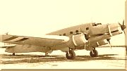 Italian Savoia-Marchetti SM.90 transport aircraft